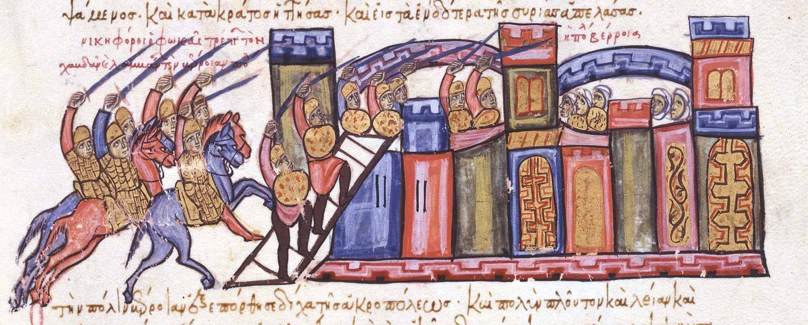 Capture of Berroia (Aleppo) by the Byzantines under Nikephoros Phokas in 962